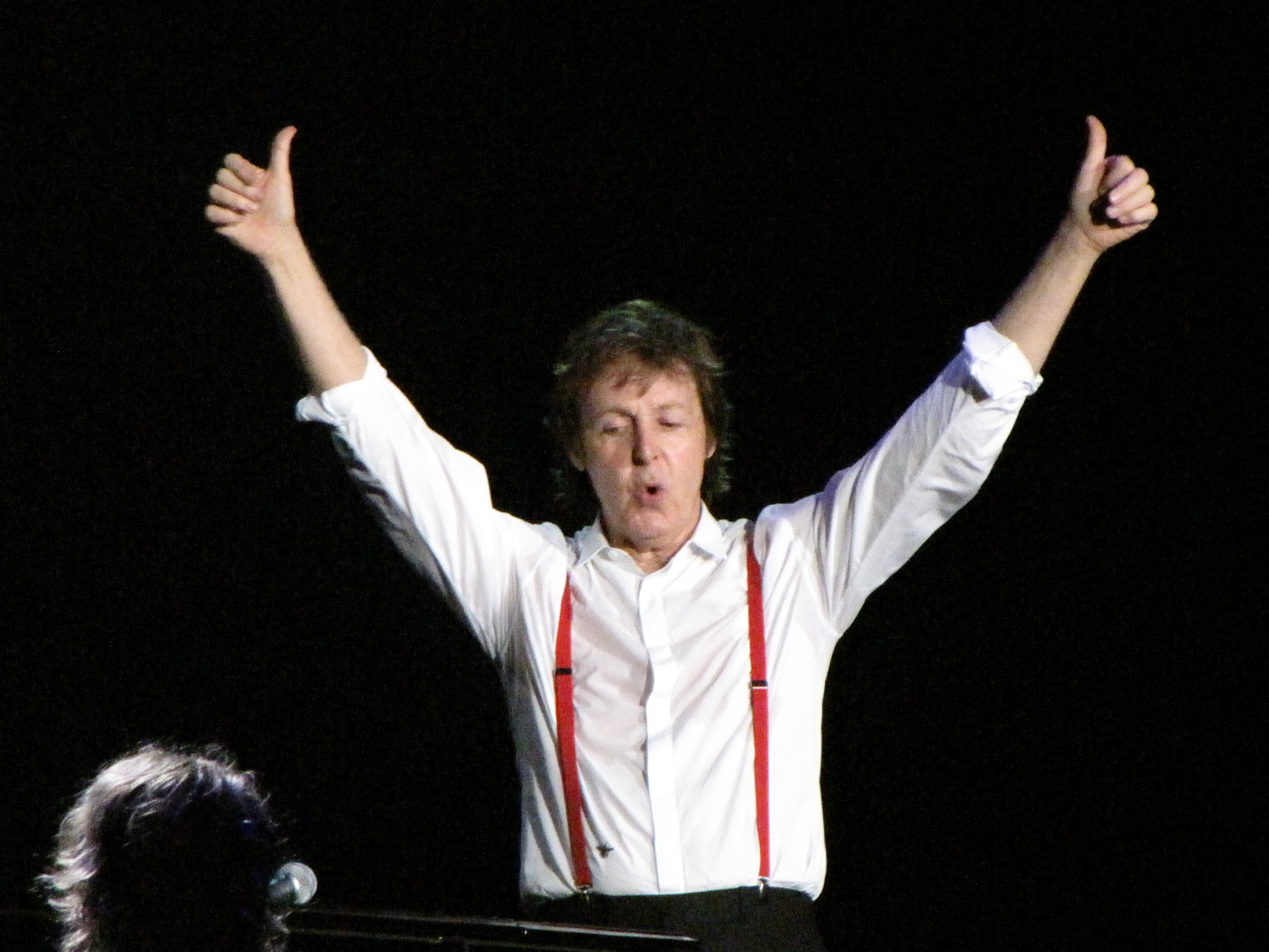 Paul McCartney @ FedEx Field, Landover MD, August 1, 2009